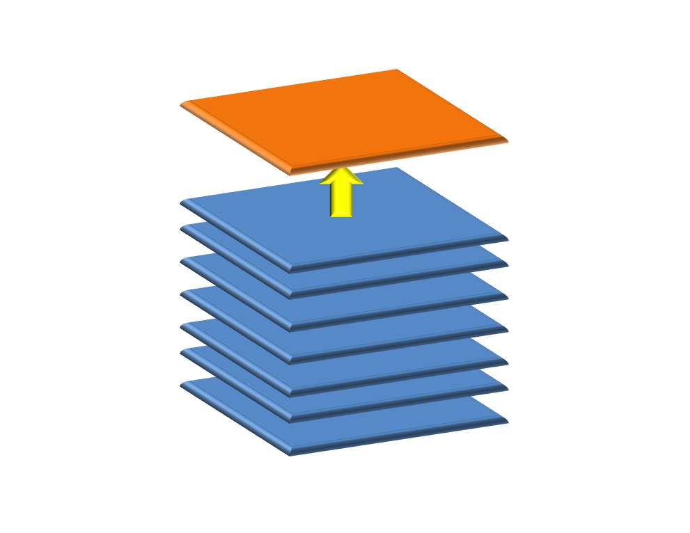 Binary Priorisation - Stage 1 (inital)